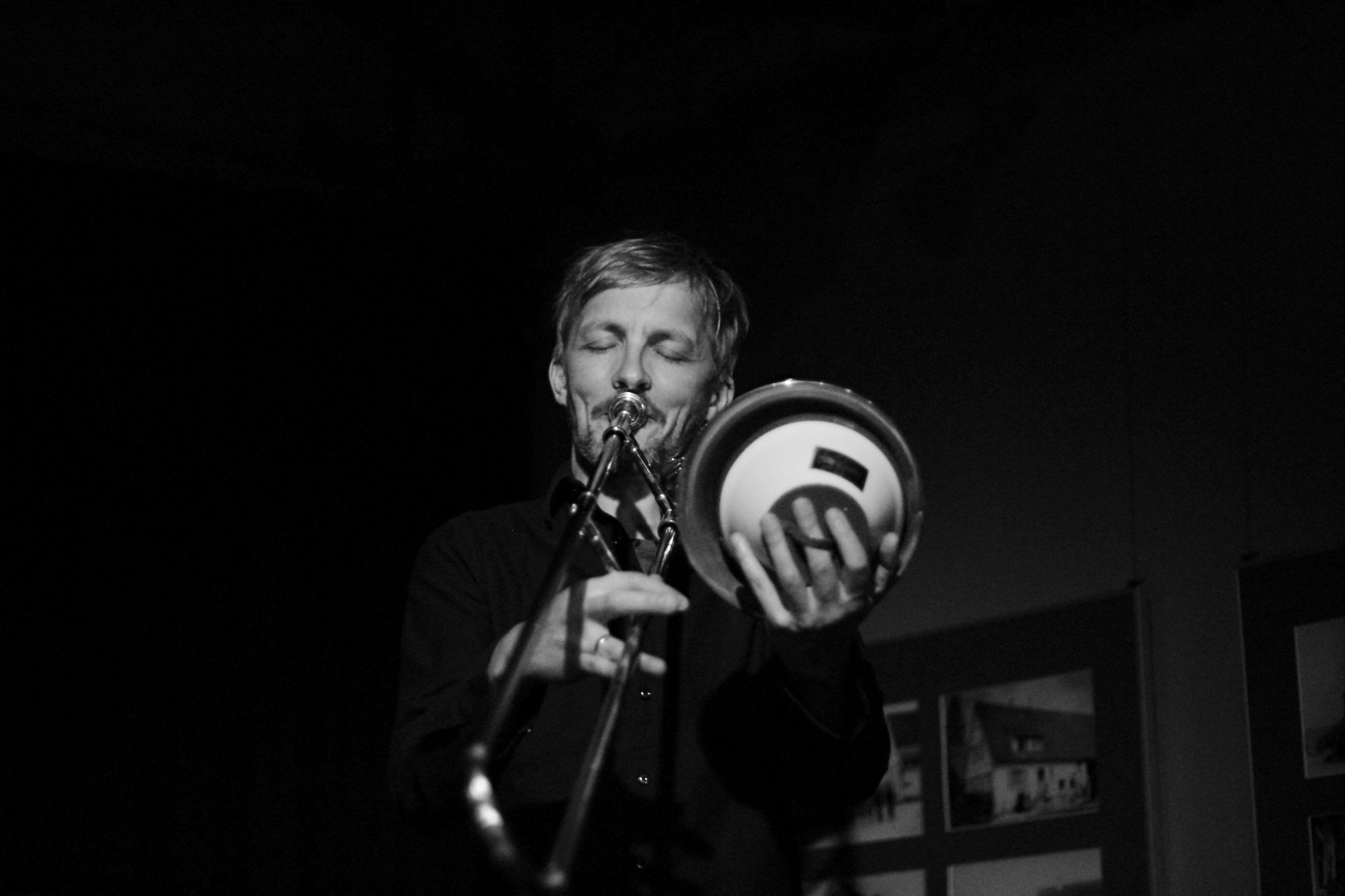 Matthias Müller and Foils Quartet at Club W71, 2016.